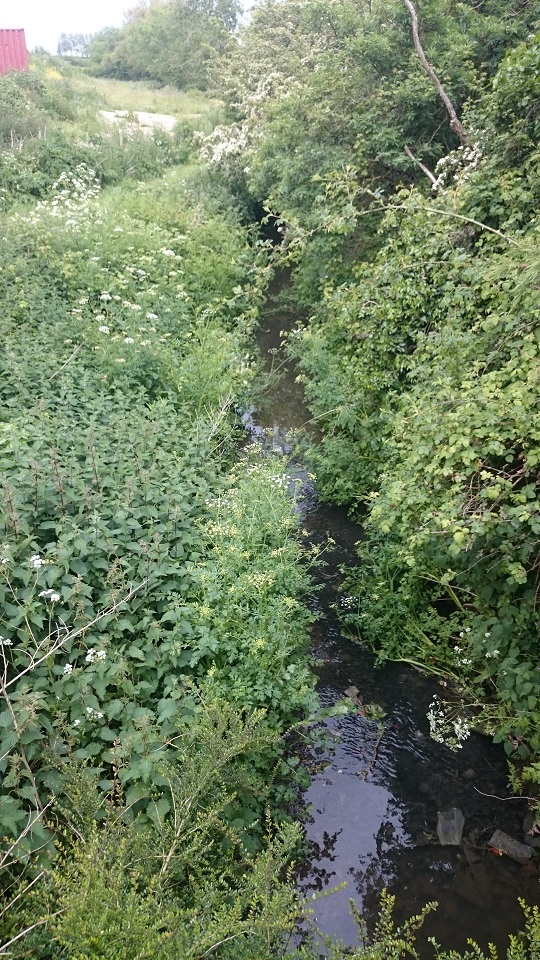 Gunville Stream in 2015